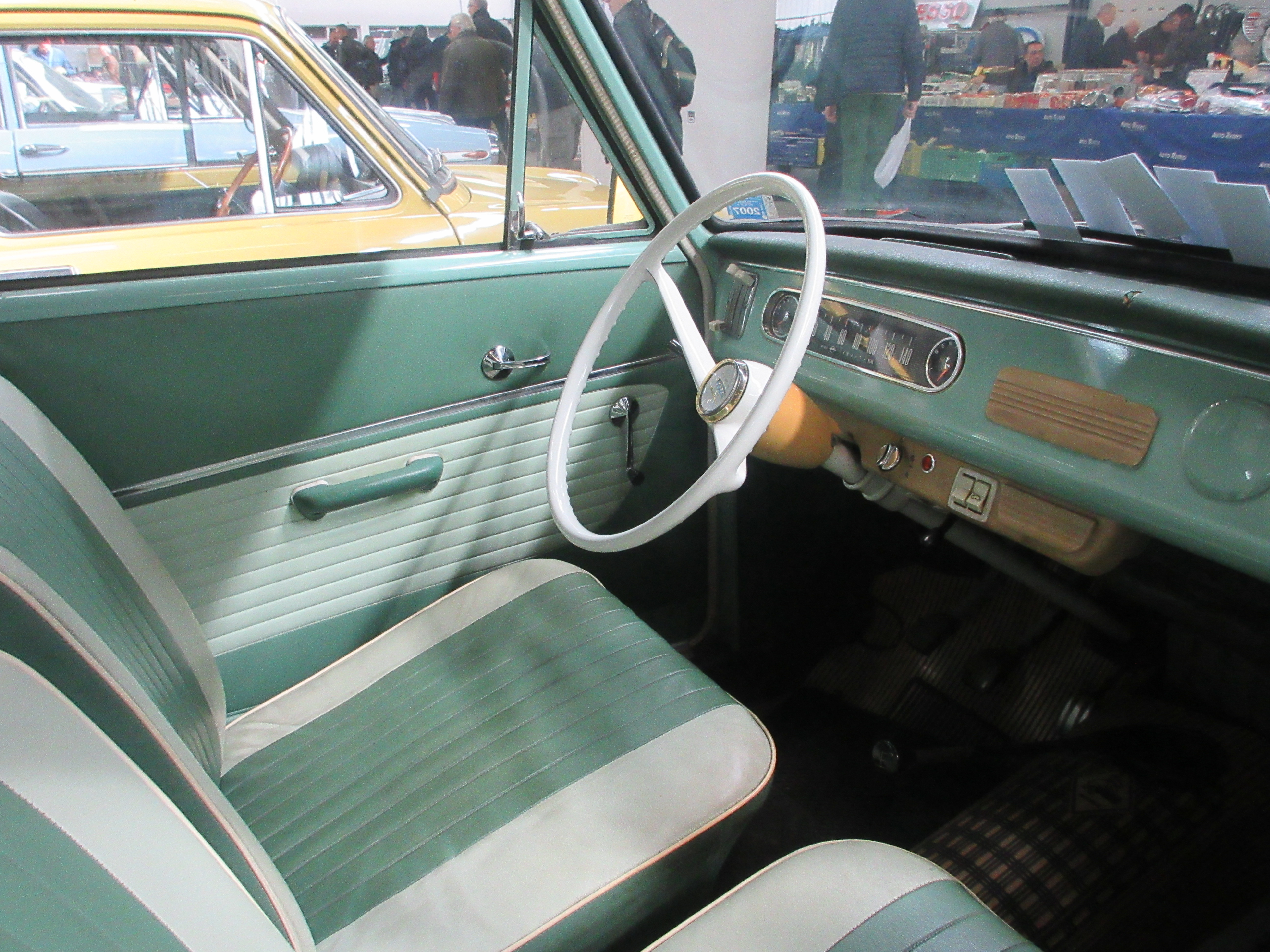 Subject: Opel Kadett A Author: Luc106 Date:March 5th, 2016 Event: Old Time Show Place/Country: Forlì (Italy) I release all rights in the public domain. Licensing